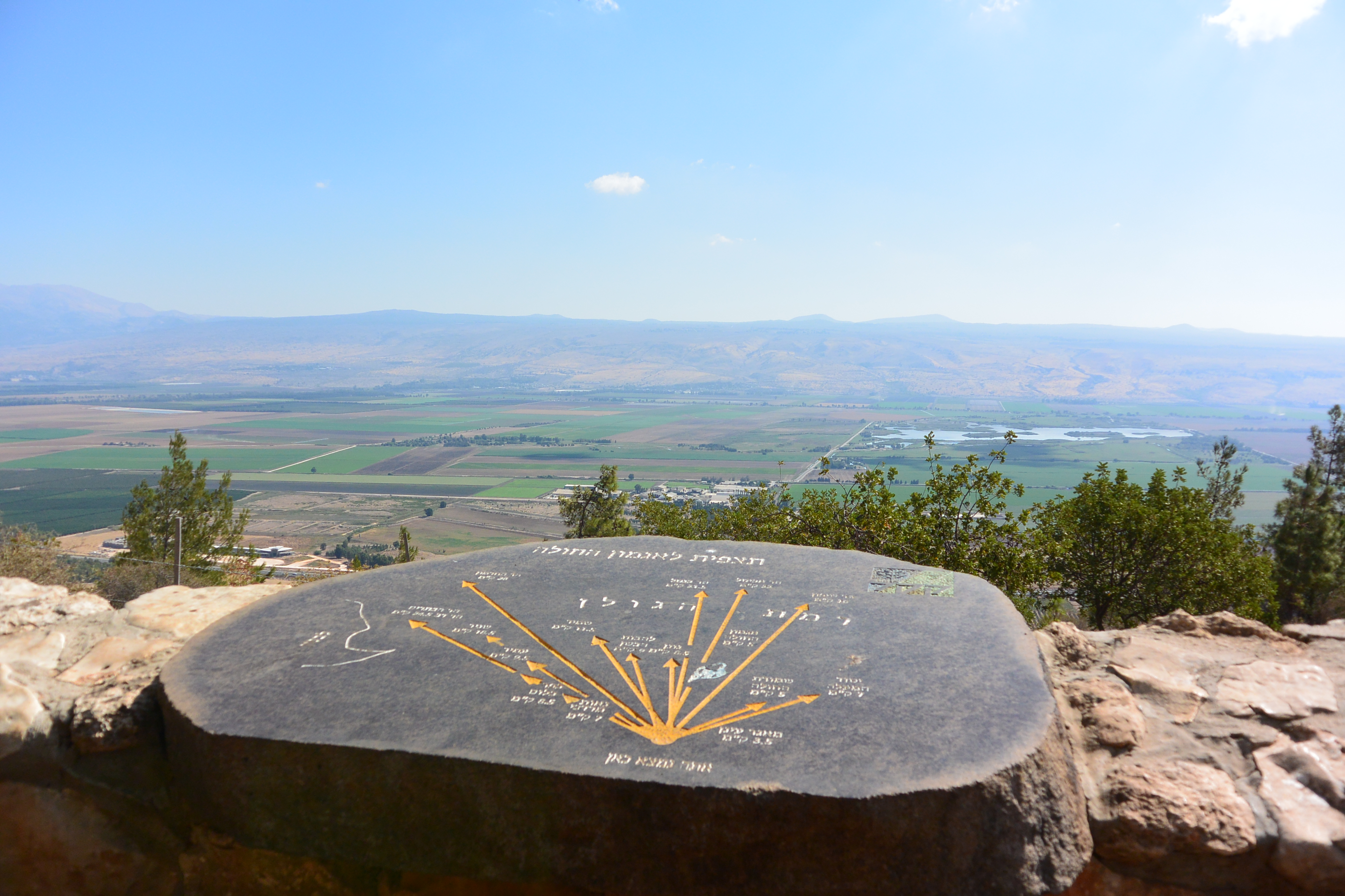 A stone board with directions at the Agamon Hula lookout located near to Ramot Naftali. The Hula Valley is down and in the end you see the Golan Heights.